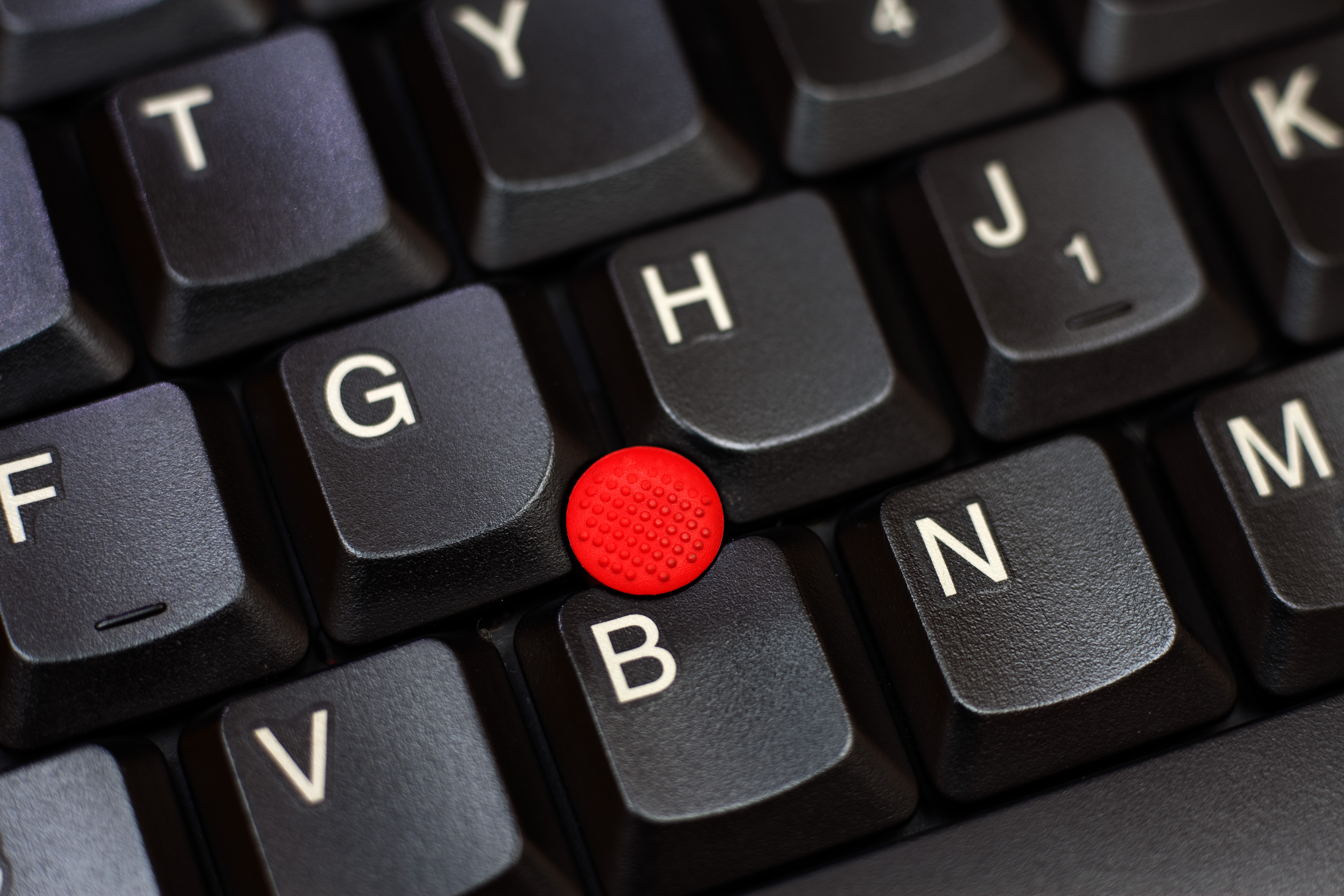 An IBM TrackPoint pointing device, in an X60s.